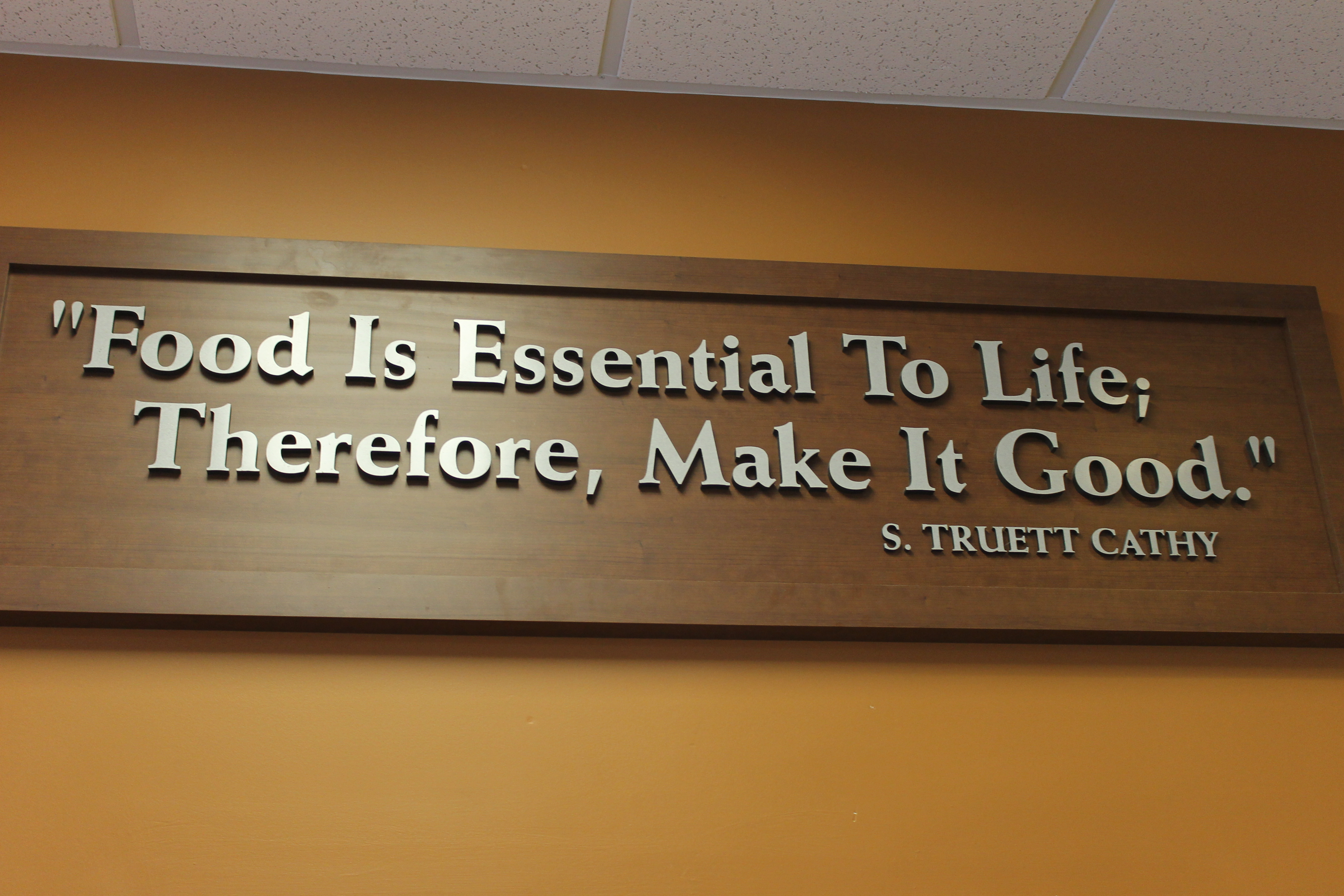 "Food Is Essential to Life", S. Truett Cathy quotation at Chick-fil-A